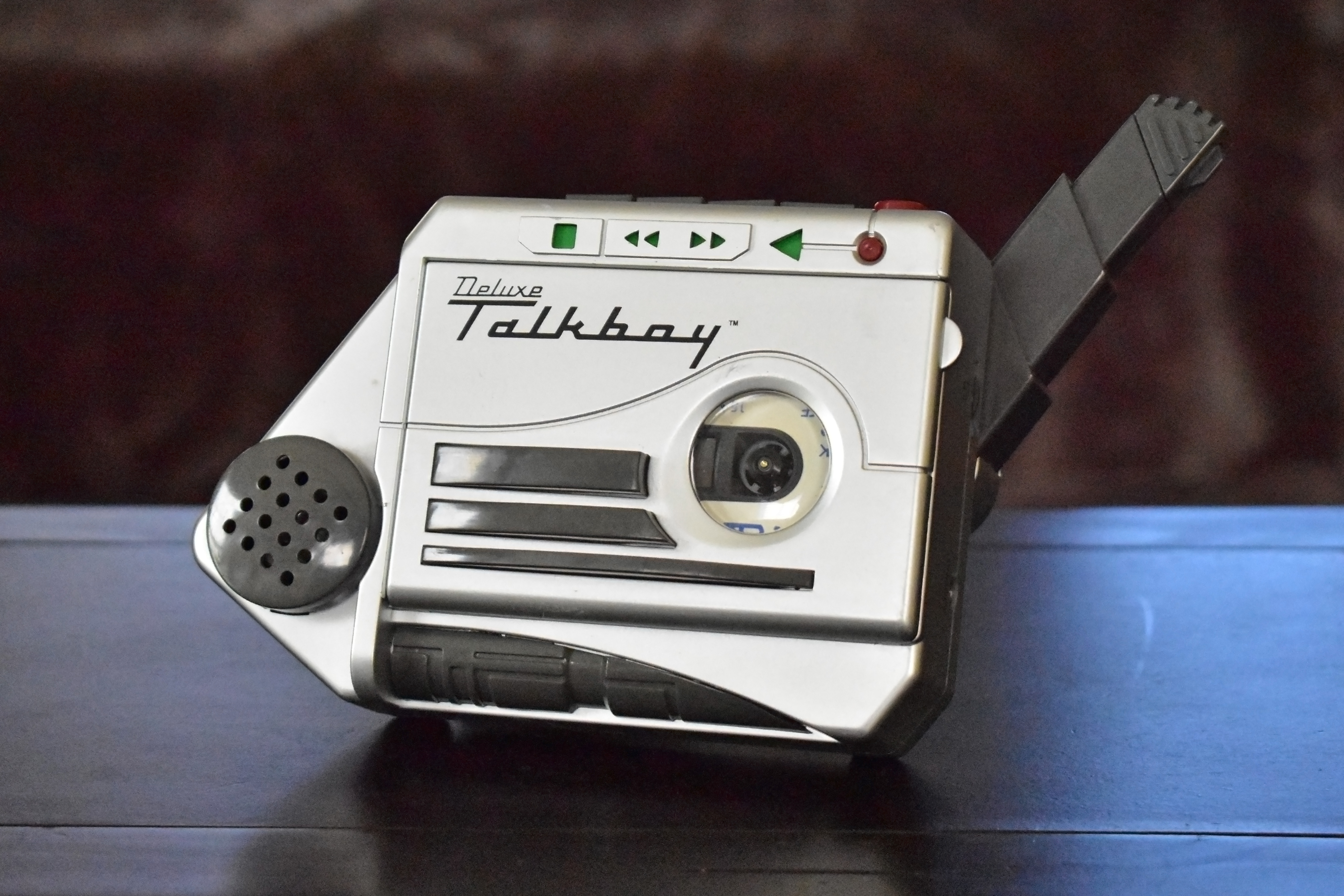 The Deluxe Talkboy portable variable speed cassette player and recorder manufactured by Tiger Electronics